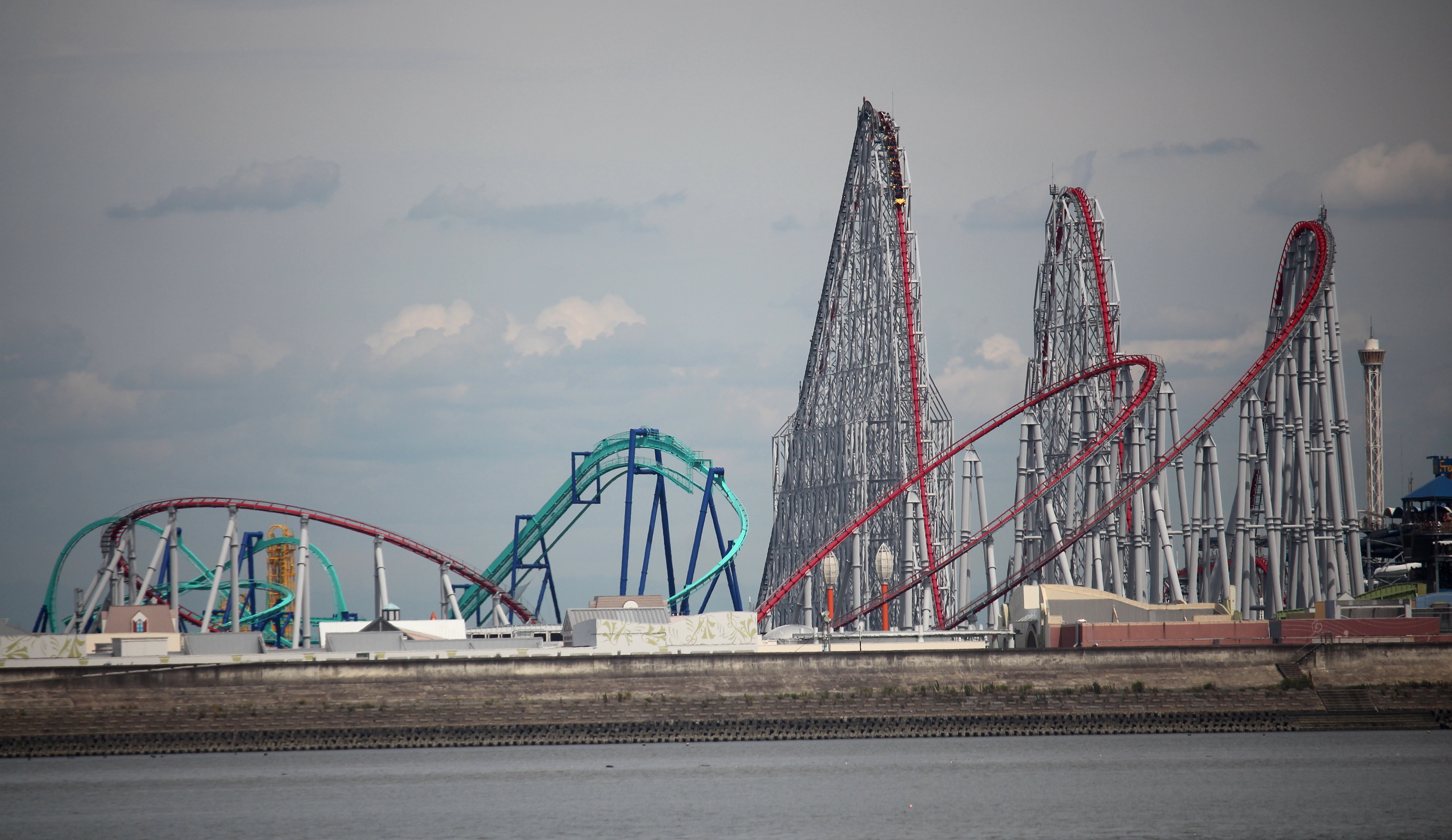 Steel Dragon 2000 in Nagashima Spa Land, Kuwana, Mie prefecture, Japan.